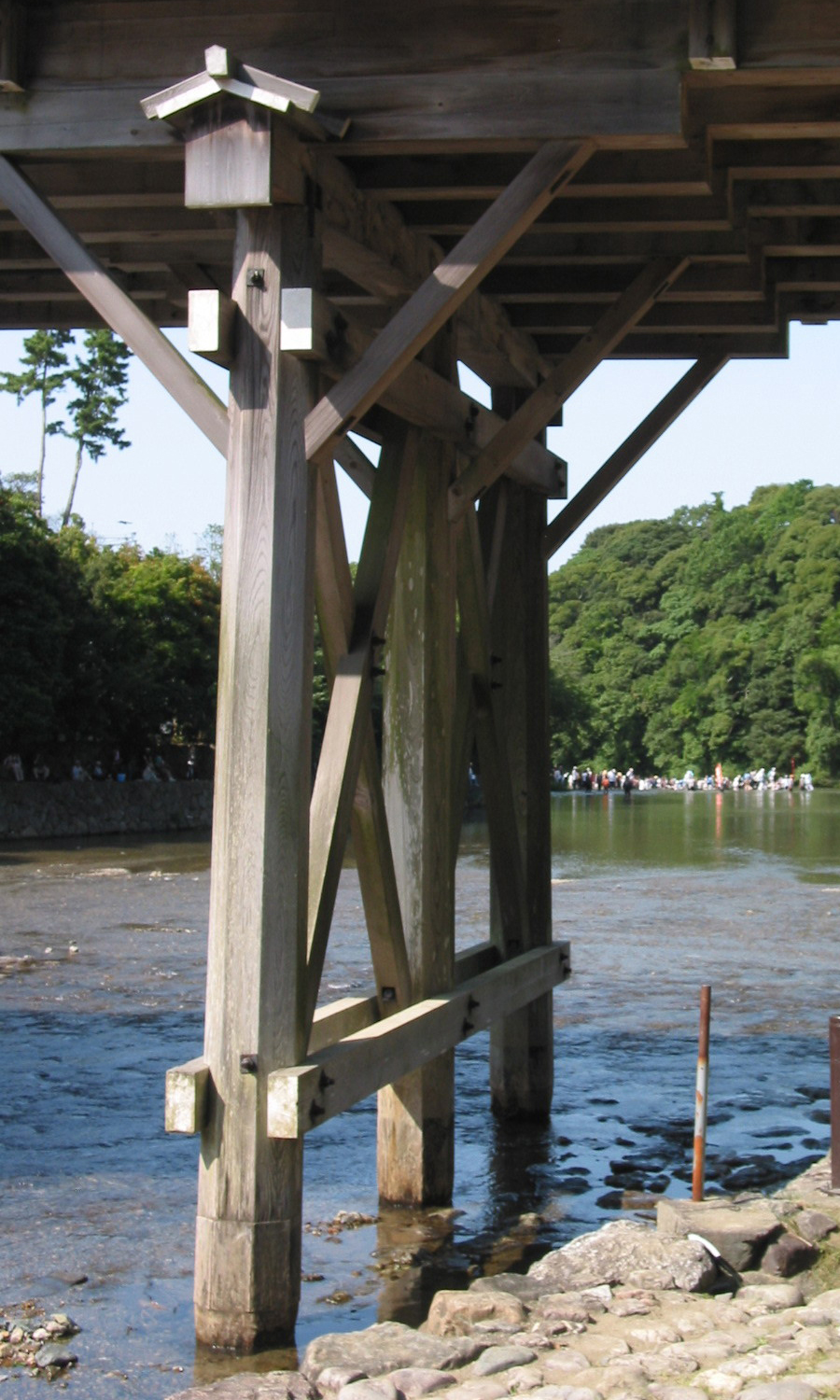 Bent of The Uji Bridge(bridge at the entrance of Kotaijingu(Naiku))I took this image at Uji-tachicho Ise city Mie Pref., Japan. Place:Kotaijingu(Naiku) Uji-tachi Ise-City Mie-Pref. Japan